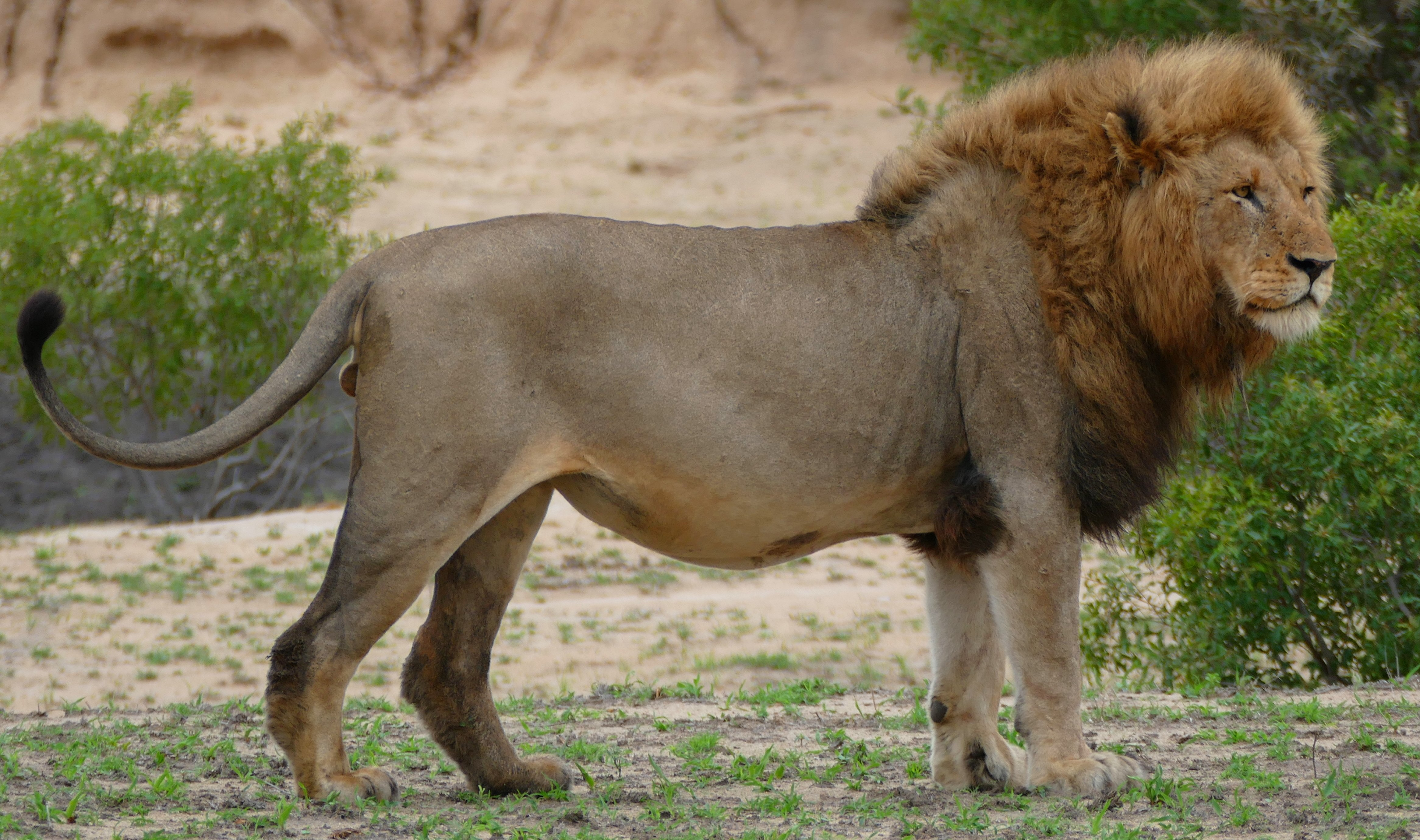 Crop of file in filename